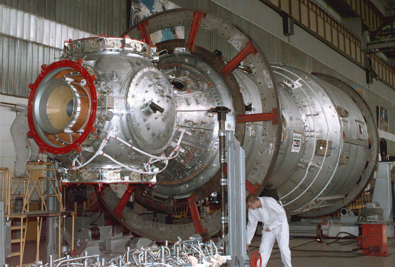 The Zvezda Service Module, the second Russian contribution and third element to the International Space Station (ISS), is shown under construction in the Krunichev State Research and Production Facility (KhSC) in Moscow. Russian technicians work on the module shortly after it completed a pressurization test. In the foreground is the forward portion of the module, including the spherical transfer compartment and its three docking ports. The forward port docked with the connected Functional Cargo Block, followed by Node 1. Launched via a three-stage Proton rocket on July 12, 2000, the Zvezda Service Module serves as the cornerstone for early human habitation of the Station, providing living quarters, life support system, electrical power distribution, data processing system, flight control system, and propulsion system. It also provides a communications system that includes remote command capabilities from ground flight controllers. The 42,000-pound module measures 43 feet in length and has a wing span of 98 feet. It is made from steel. Similar in layout to the core module of Russia's Mir space station, it contains 3 pressurized compartments and 13 windows that allow ultimate viewing of Earth and space.